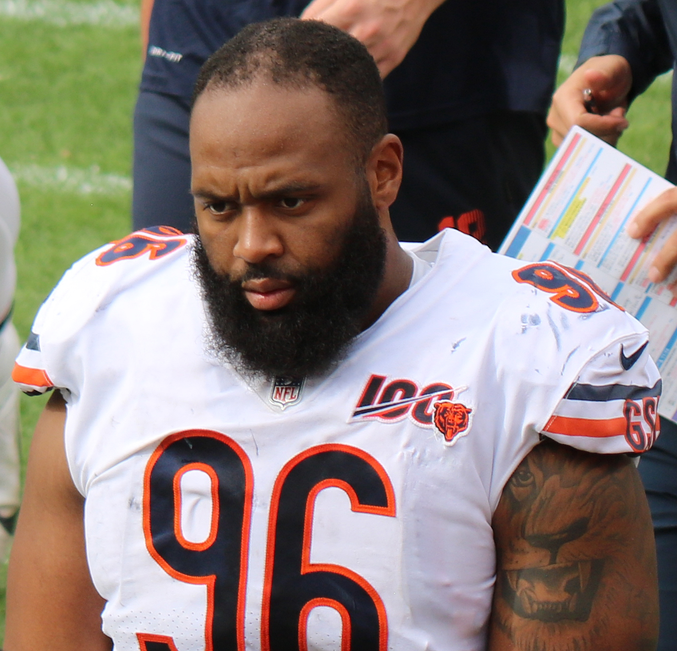 Akiem Hicks, a National Football League player.